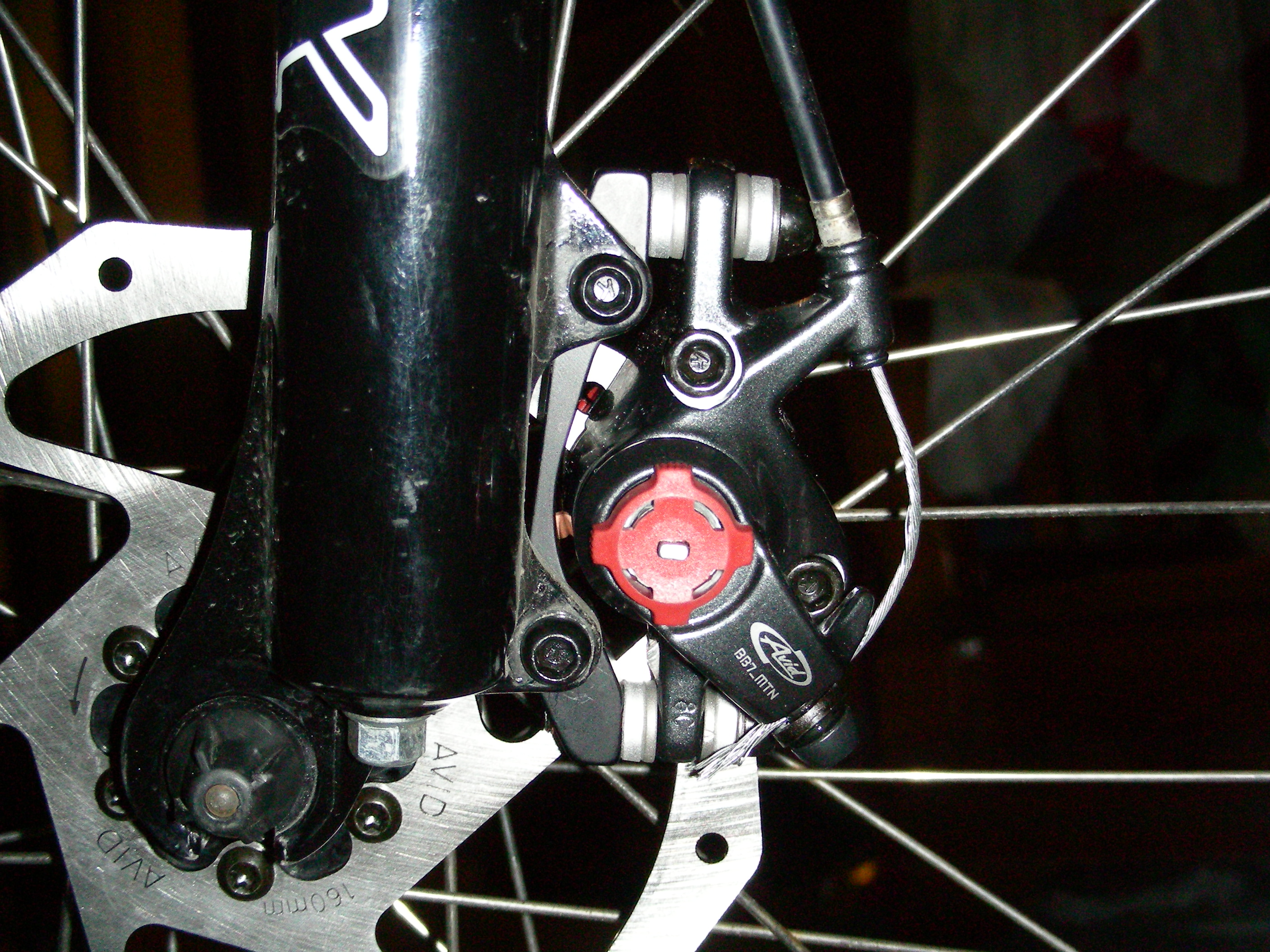 AVID BB7 mechanical disc brake front type on SR SUNTOUR XCM front fork in GIANT AS-845 YUKON Disc